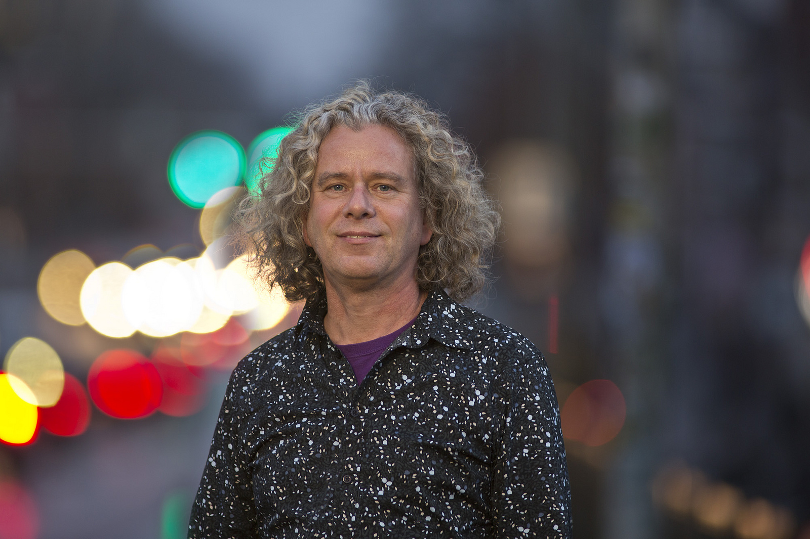 Renger Koning